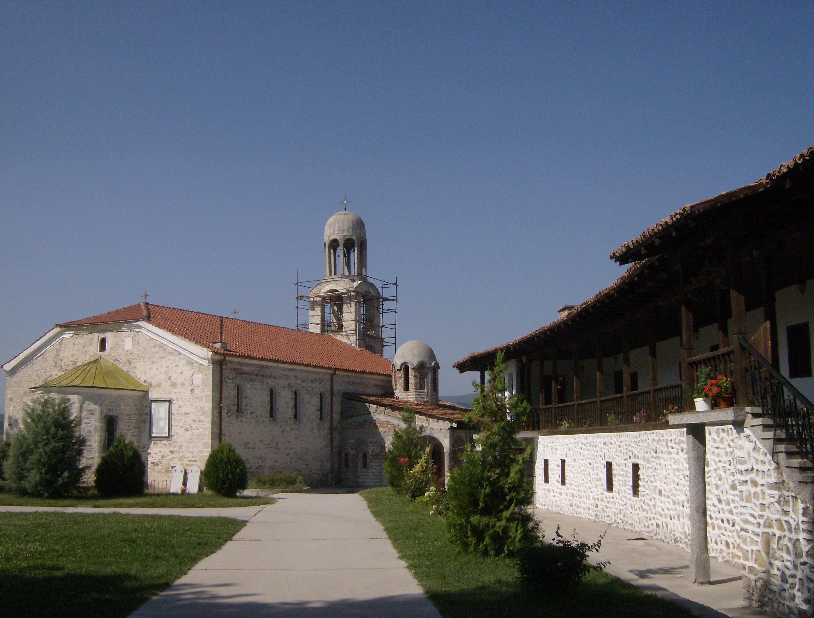 Hadjidimovo Monastery